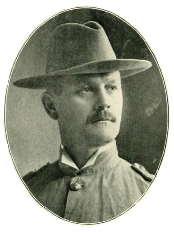 Photo of Major Robert W. Young, a U.S. Army Brigadier General and an Associate Justice of the Supreme Court of the Philippines during the time that the Philippines was a U.S. Territory.